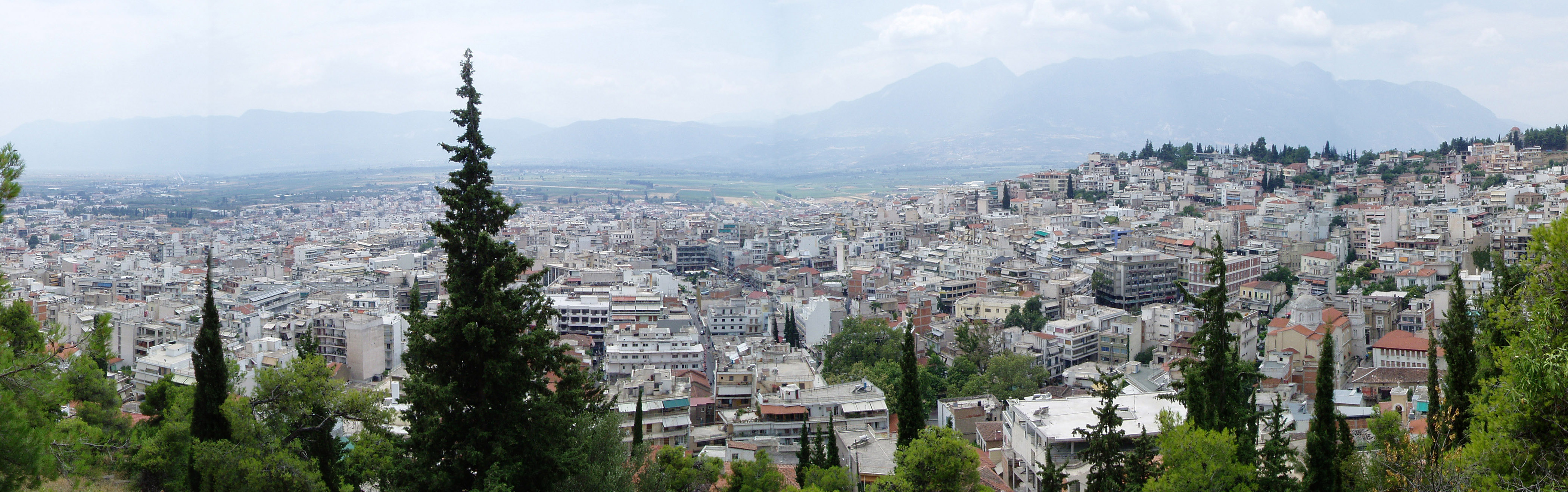 Panorama of the city of Lamia, Greece, taken from the city's castle.